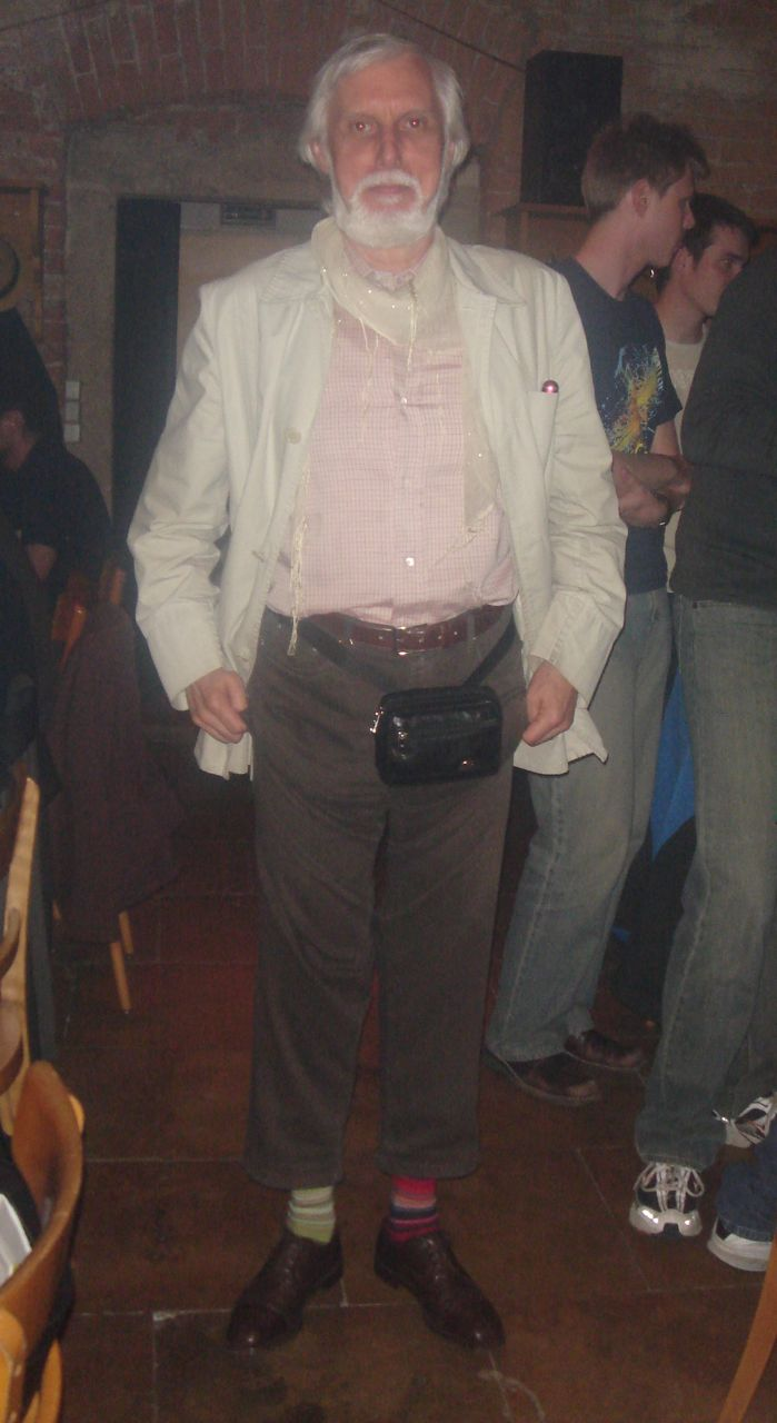 Reinhold Bertlmann, at the European Young Scientists Conference on Quantum Information conference dinner, demonstrating that he still likes to wear two socks of different colors.